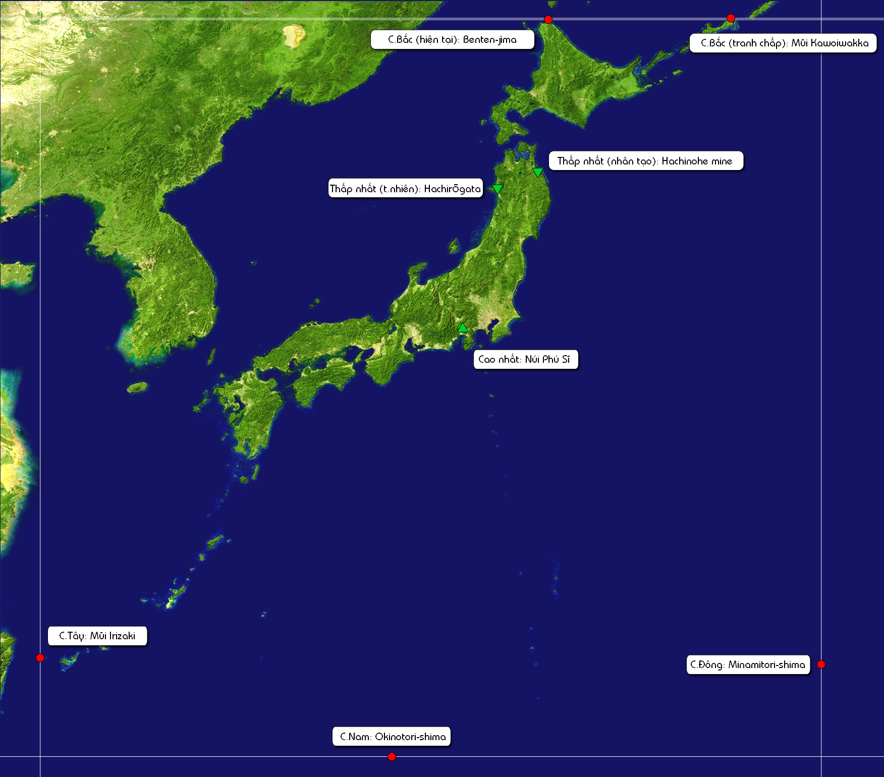 Extreme points of Japan.